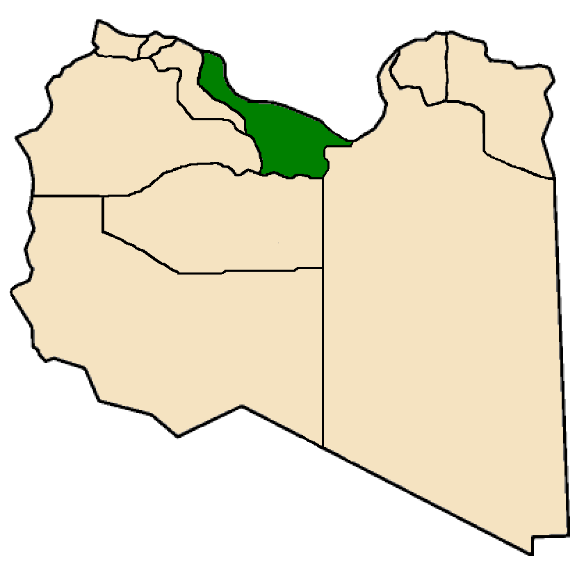 Location of Misratah Governorate in Libya 1963-1983